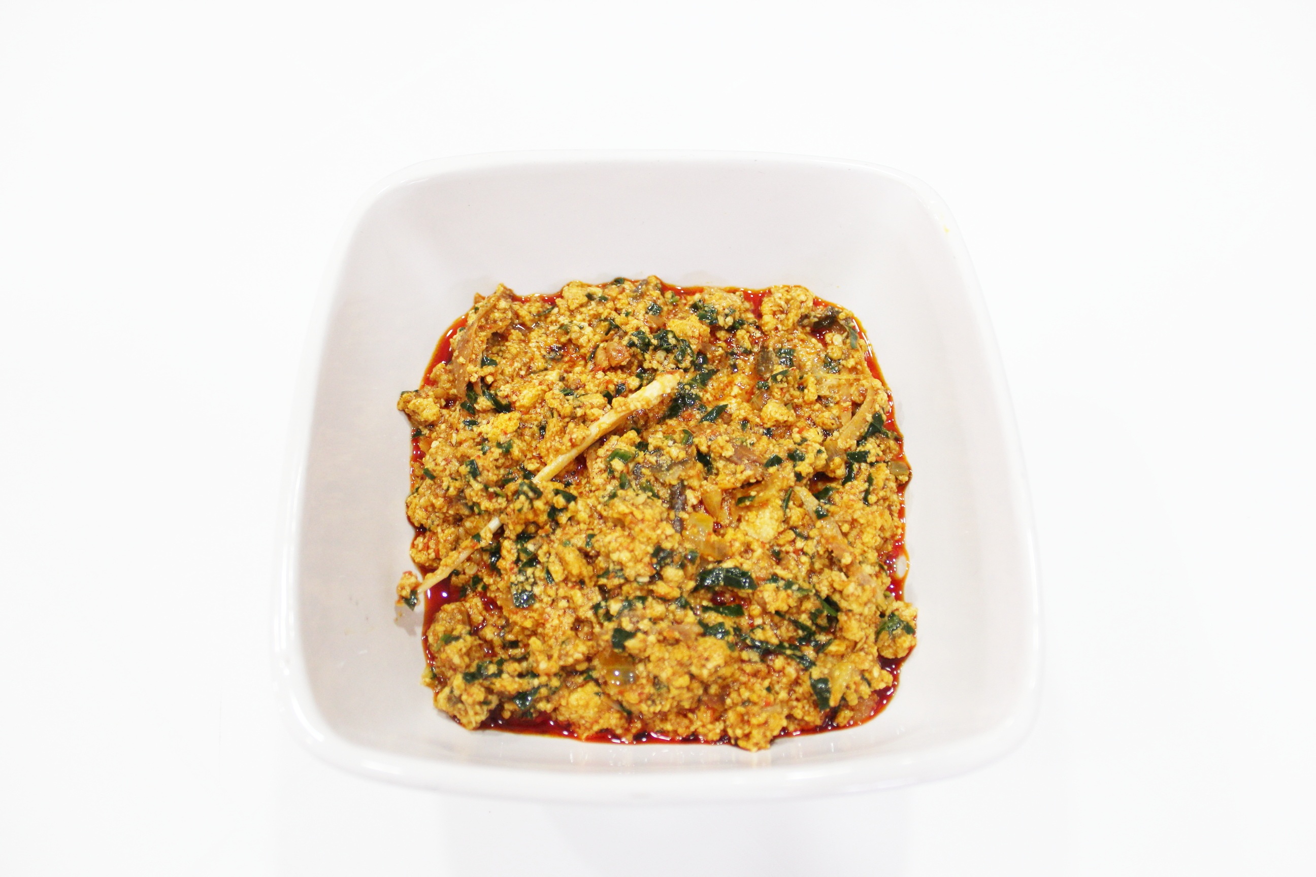 NIGERIAN